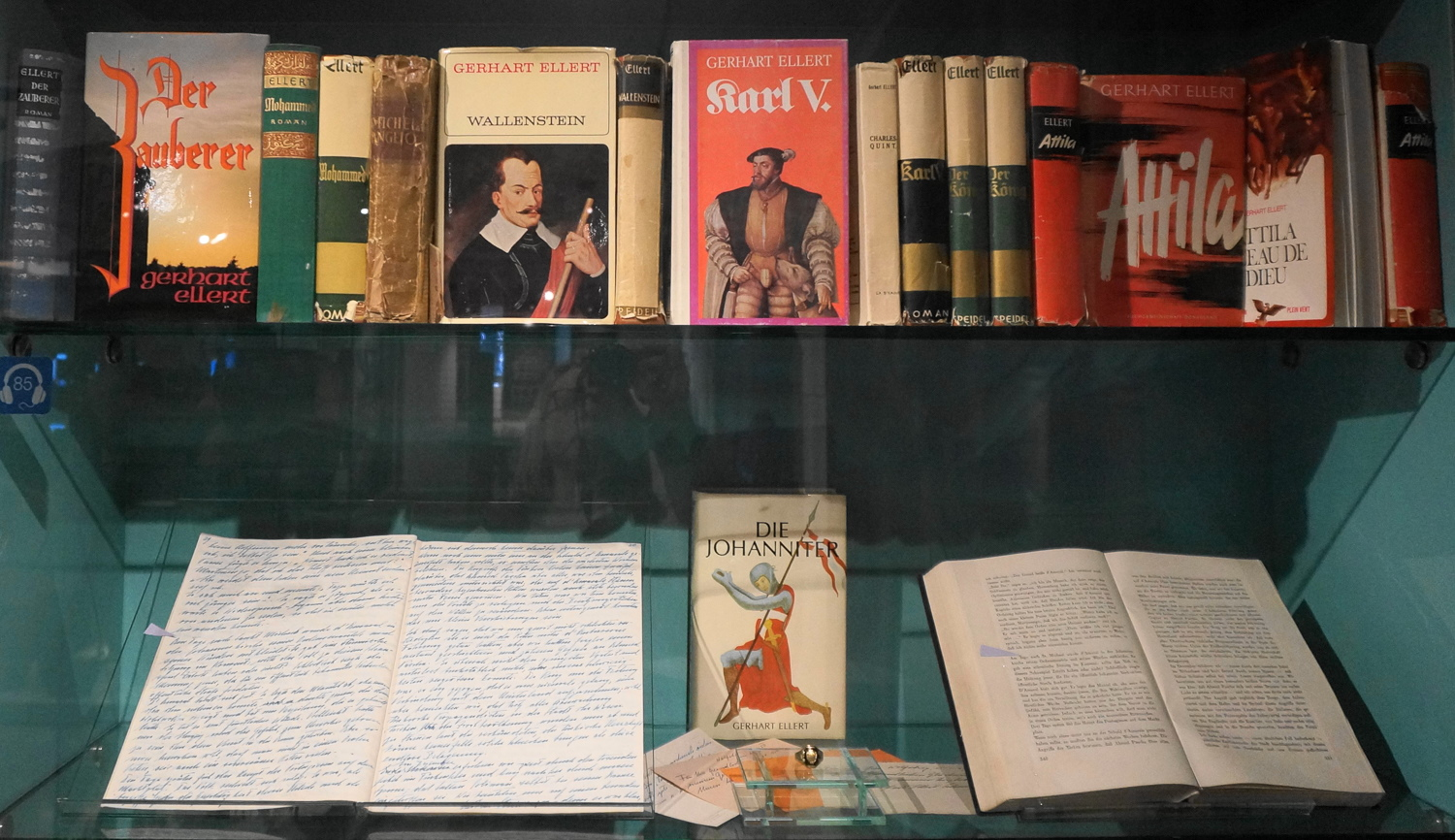 Collection of works by Gerhart Ellert, alias Gertrud Schmierger from Wolfsberg, Carinthia, Austria, EU